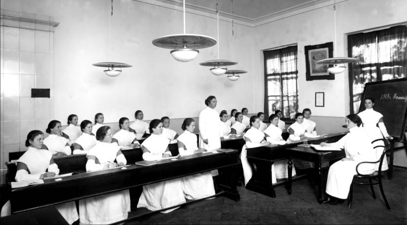 Урок в школе нянь Императорского воспитательного дома. Санкт-Петербург. 1913. Фото К. К. Буллы